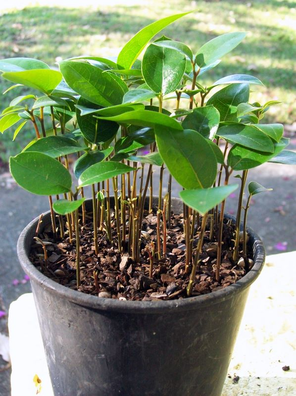 Litsea reticulata - seedlings. seeds collected from private property, near Kiama, Illawarra, Australia